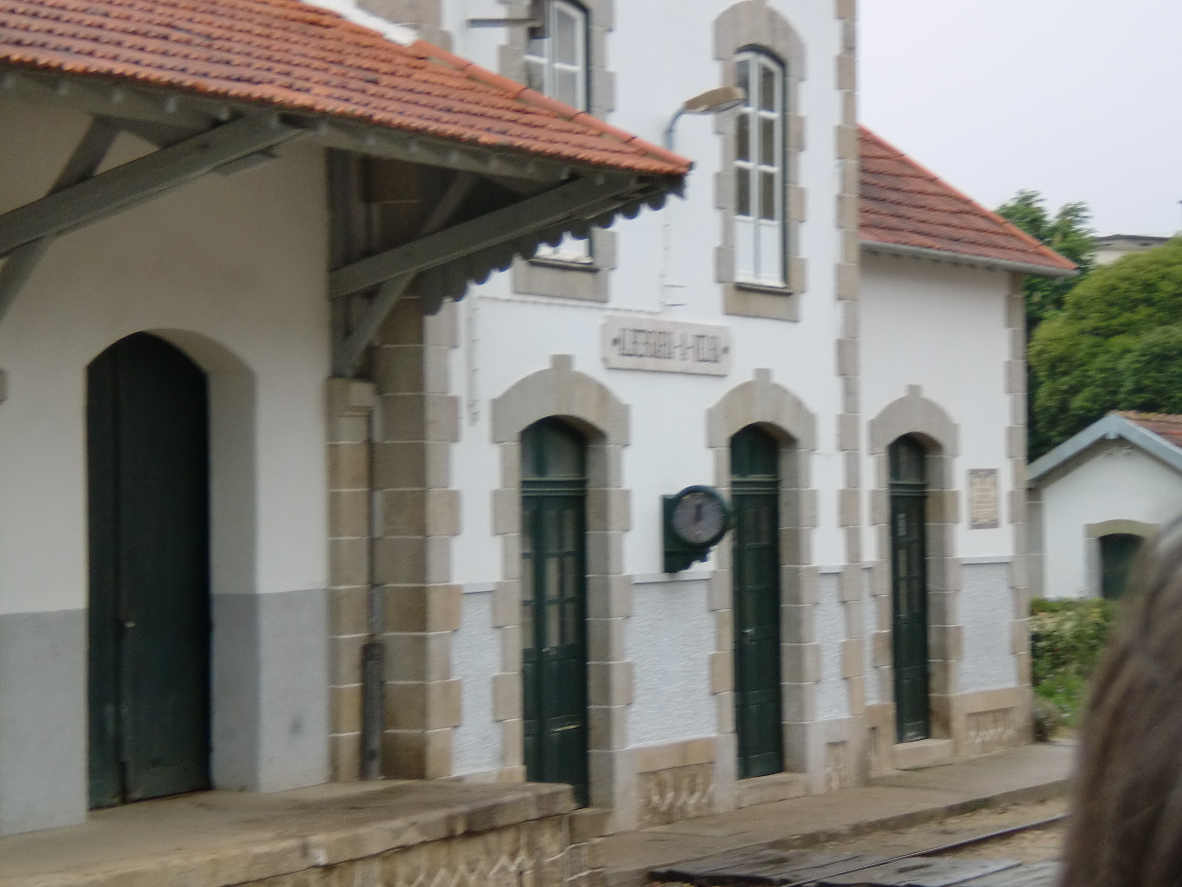 Albergaria-a-Velha station